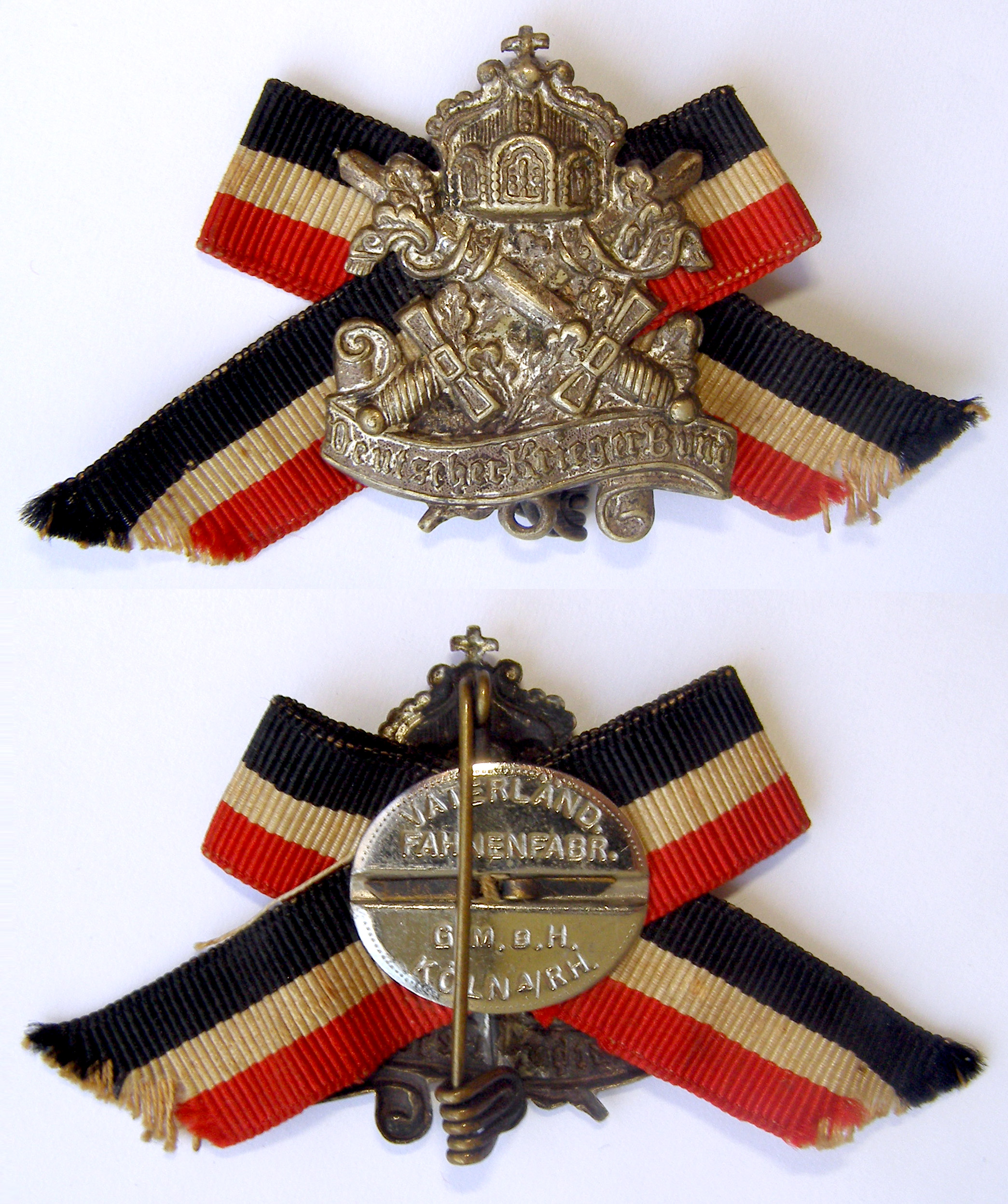 german veteran-organization-emblem for the german-french war 1870/71, produced at Cologne by "Vaterländische Fahnenfabrik GmBH"